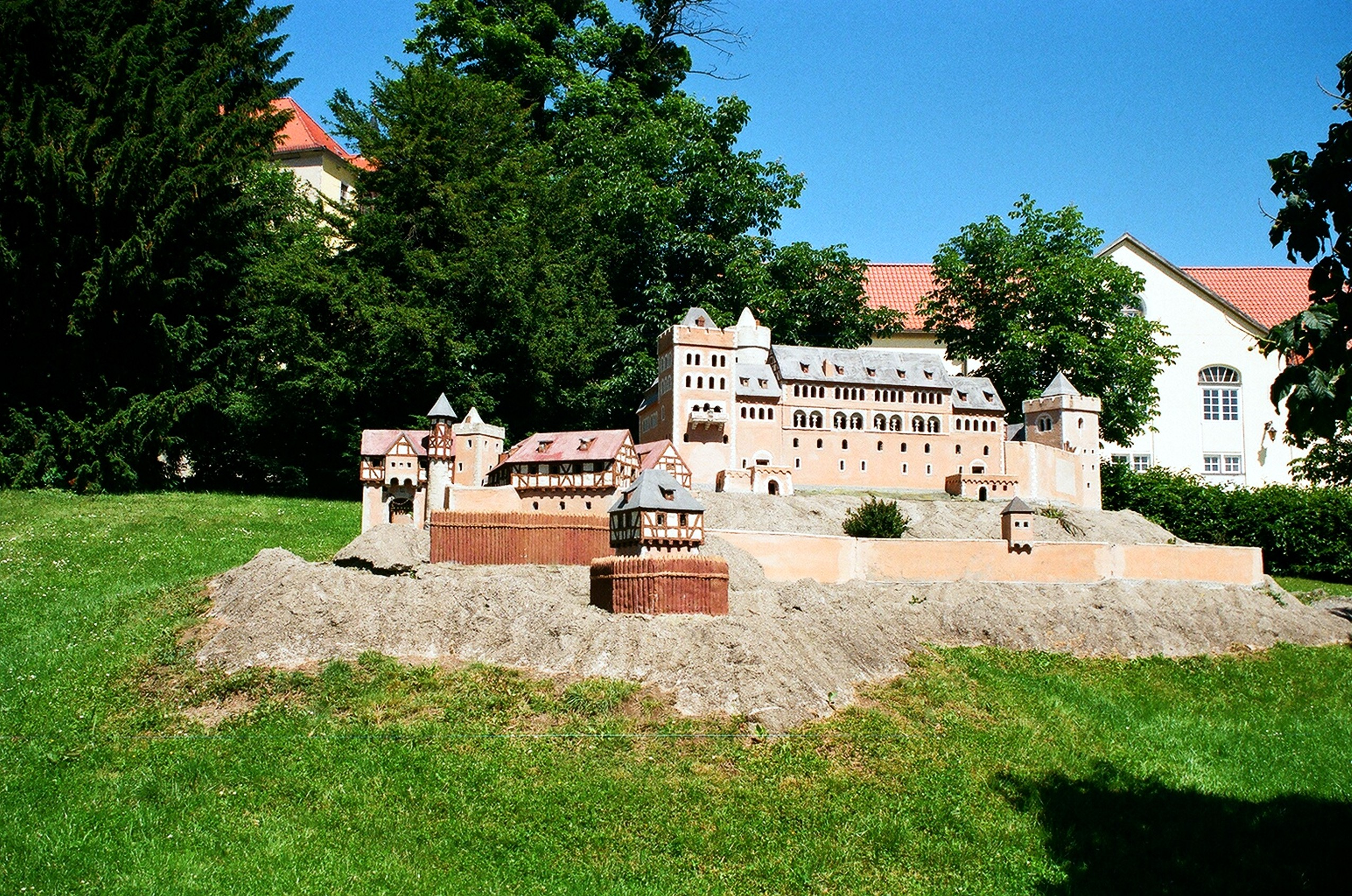 Ballenstedt, the model of the castle Anhalt